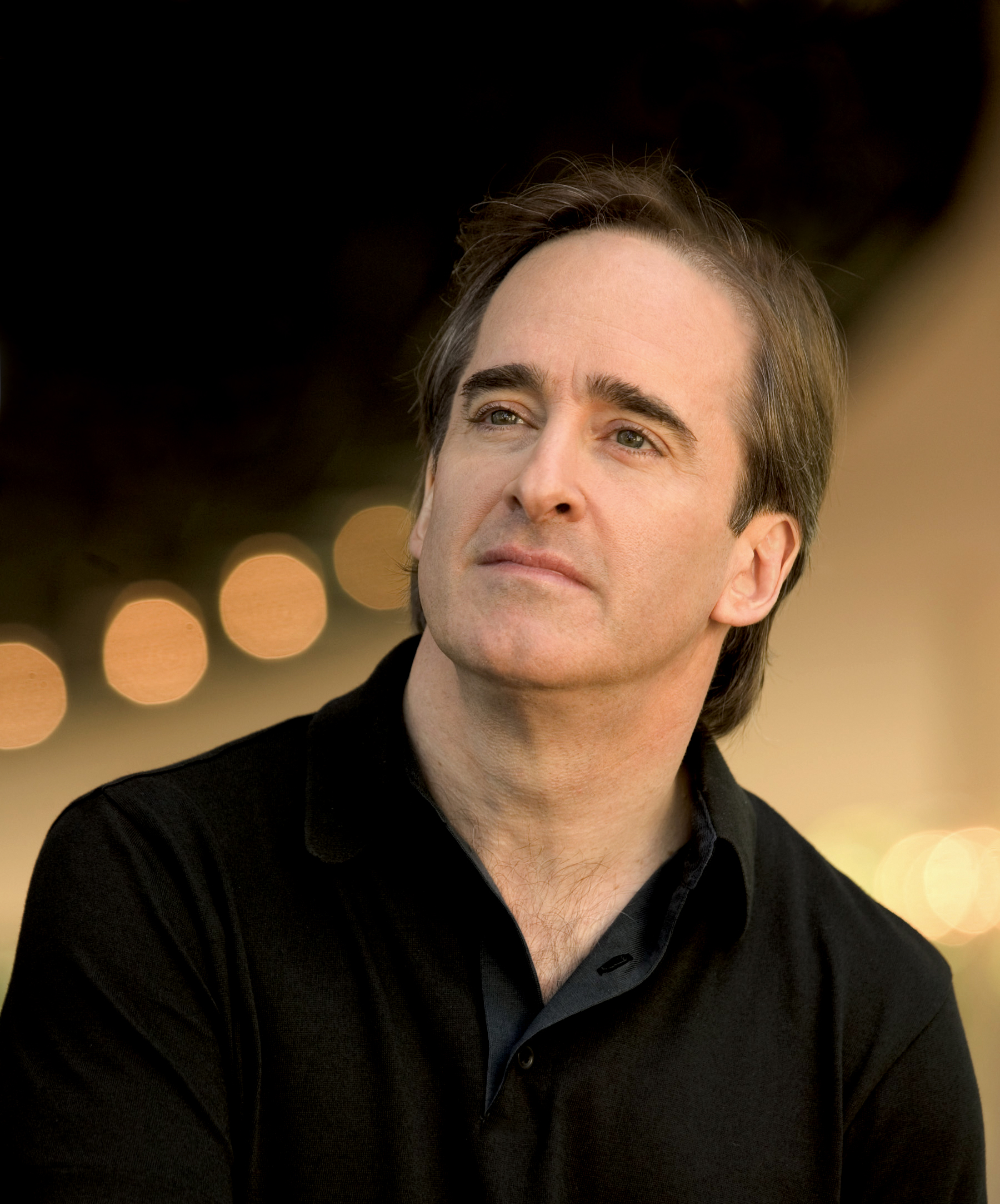 American conductor James Conlon. Photo by Todd Rosenberg taken at the Ravinia Festival